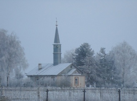 The Mosque of Iske Chachkab Татарча/tatarça: Иске Чәчкаб авылы мәчете